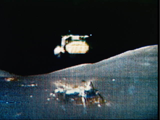 Liftoff of the Apollo-17 Lunar Module